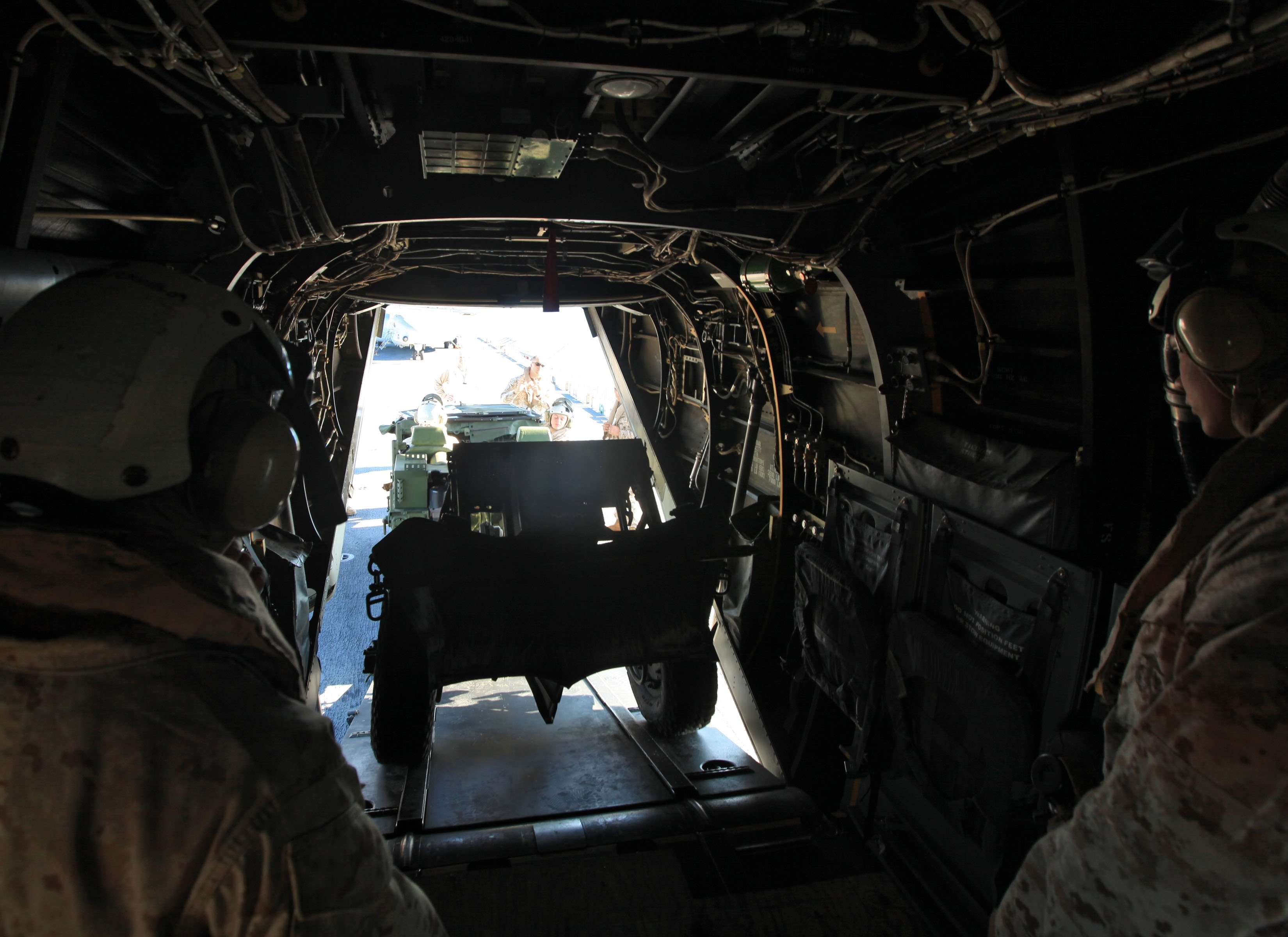 USS IWO JIMA (LHD 7) – Marines with 3rd Battalion, 10th Marine Regiment, attached to the 24th Marine Expeditionary Unit’s Battalion Landing Team, practice loading an Internally Transportable Vehicle (ITV) along with a Type M327 120 mm Towed Rifled Mortar system, commonly called the Expeditionary Fire Support System (EFSS) onto an MV-22 Osprey aboard the amphibious assault ship USS Iwo Jima Oct. 26, 2011. The Marines conducted the training to become familiar with loading the EFSS for future operations where they will fly the vehicle and mortar off the ship using the Osprey to conduct firing exercises ashore and prepare for deployment. This training took place as part of the Amphibious Squadron 8 (PHIBRON 8)/ 24th MEU Integration Exercise, known as PMINT. PMINT will take place Oct. 24 to Nov. 3 and is focused on building the Navy-Marine Team and establishing the working relationships and practices necessary to conduct operations from the sea. (Official USMC Photo by: Lance Cpl Michael J. Petersheim/ Released)